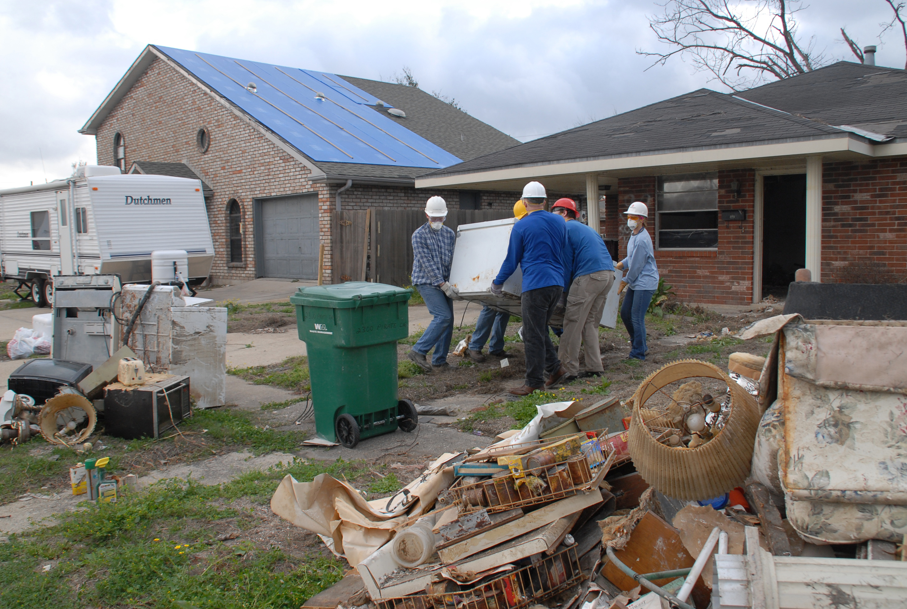 New Orleans, LA, 3-13-06 -- Volunteers from the University of Alaska at Fairbanks and Rotaract carry out a refrigerator to the curb for disposal. College students from around the country are in New Orleans helping with clean up during spring break. FEMA is housing as many of the College Student volunteers as possible in four base camps in and around New Orleans. These base camps are being expanded to accommodate more volunteers. Marvin Nauman/FEMA photo